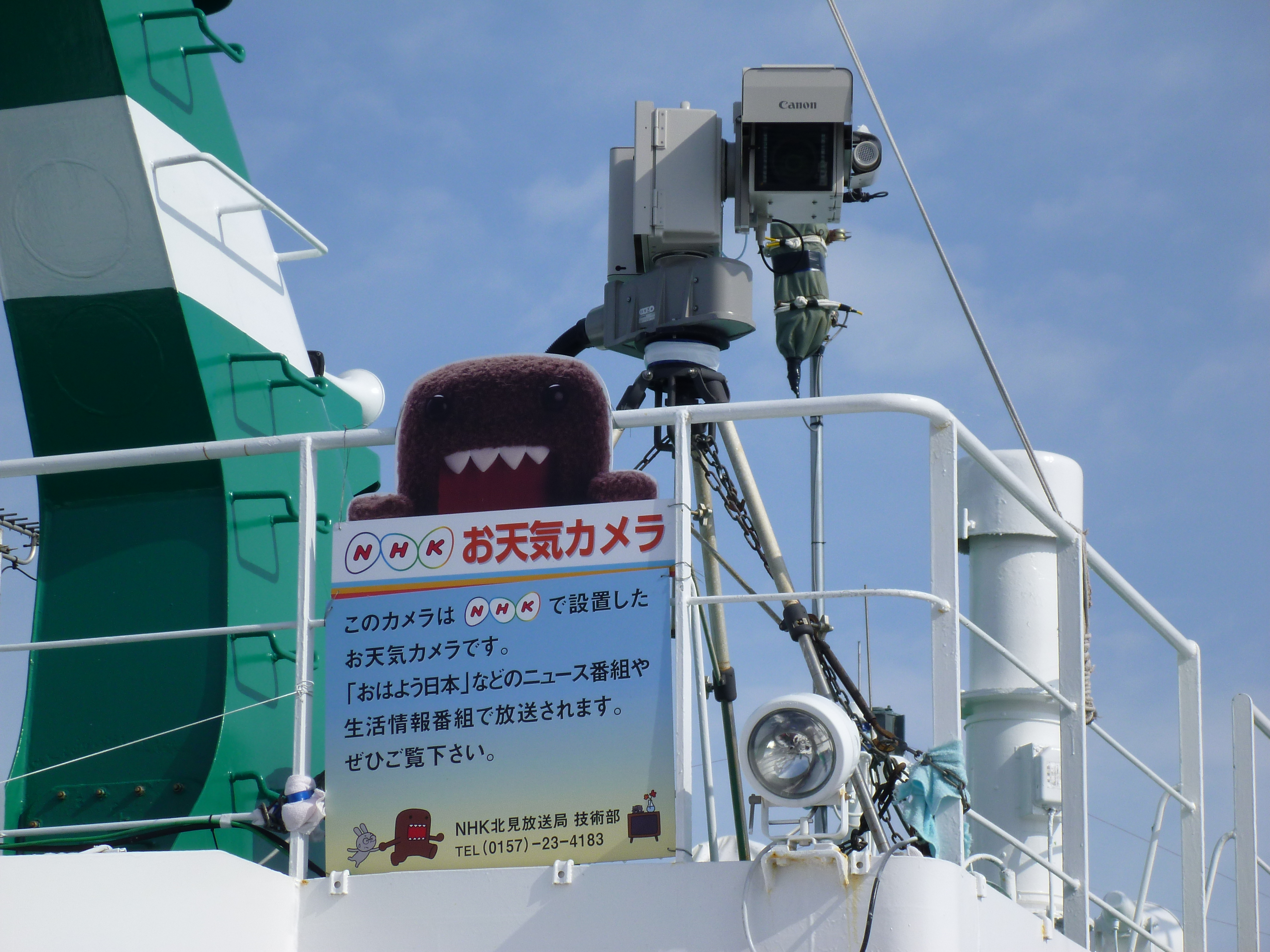 NHK weather camera installed on the icebreaker ship Aurora II